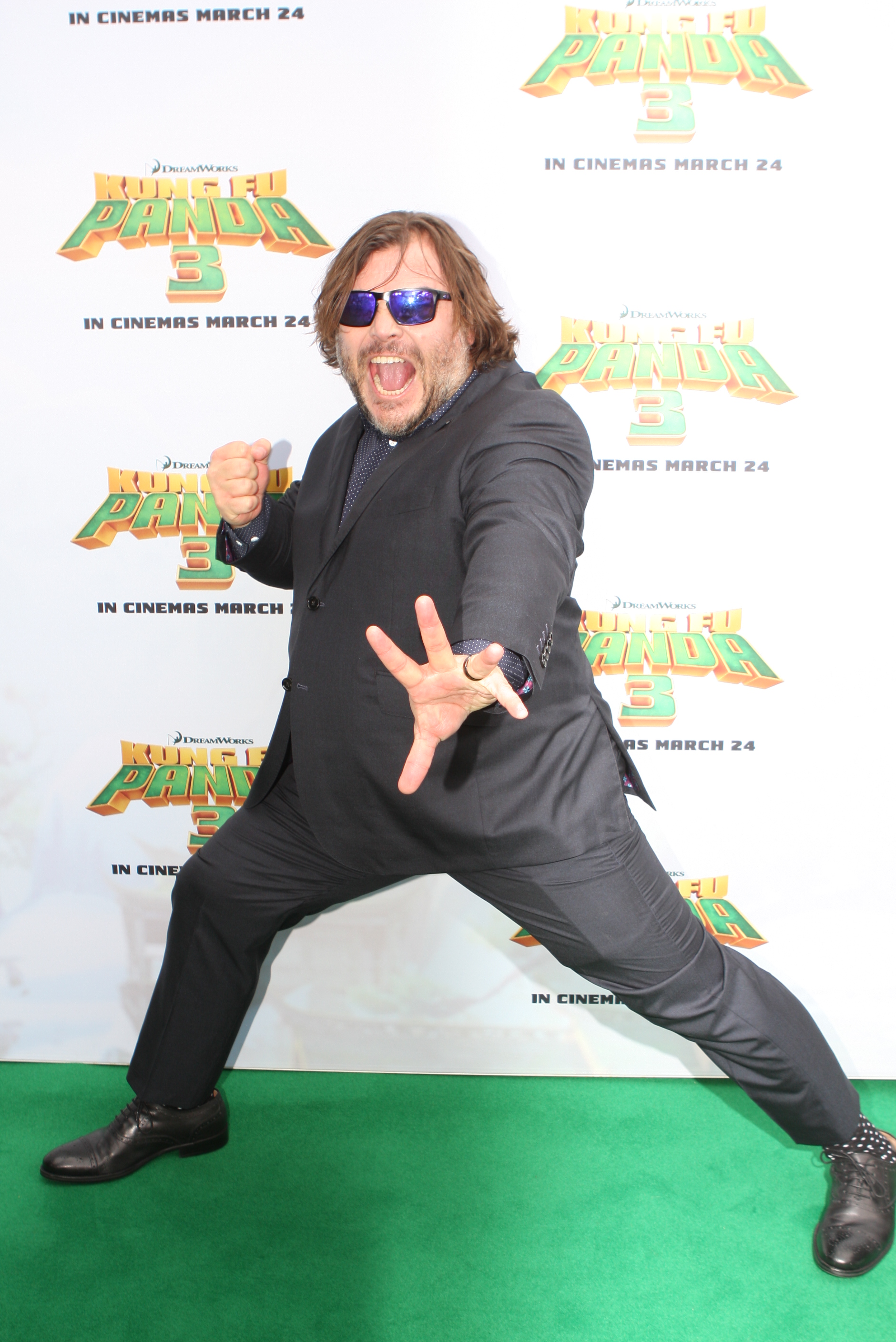 Jack Black